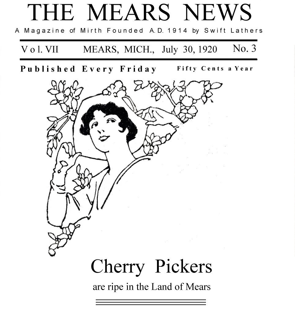 Mears News July 30, 1920